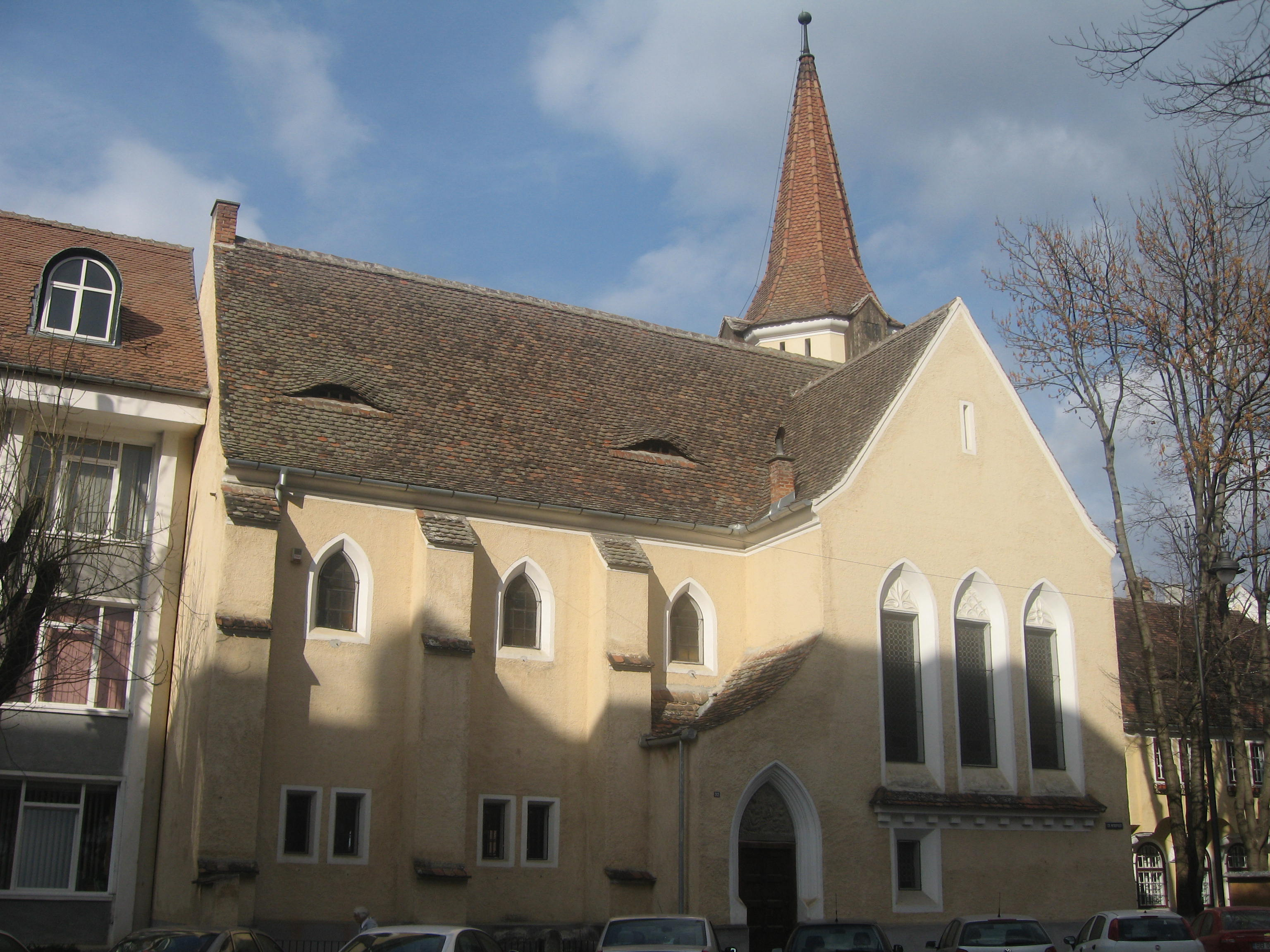 Sf. Johannis Church in Sibiu